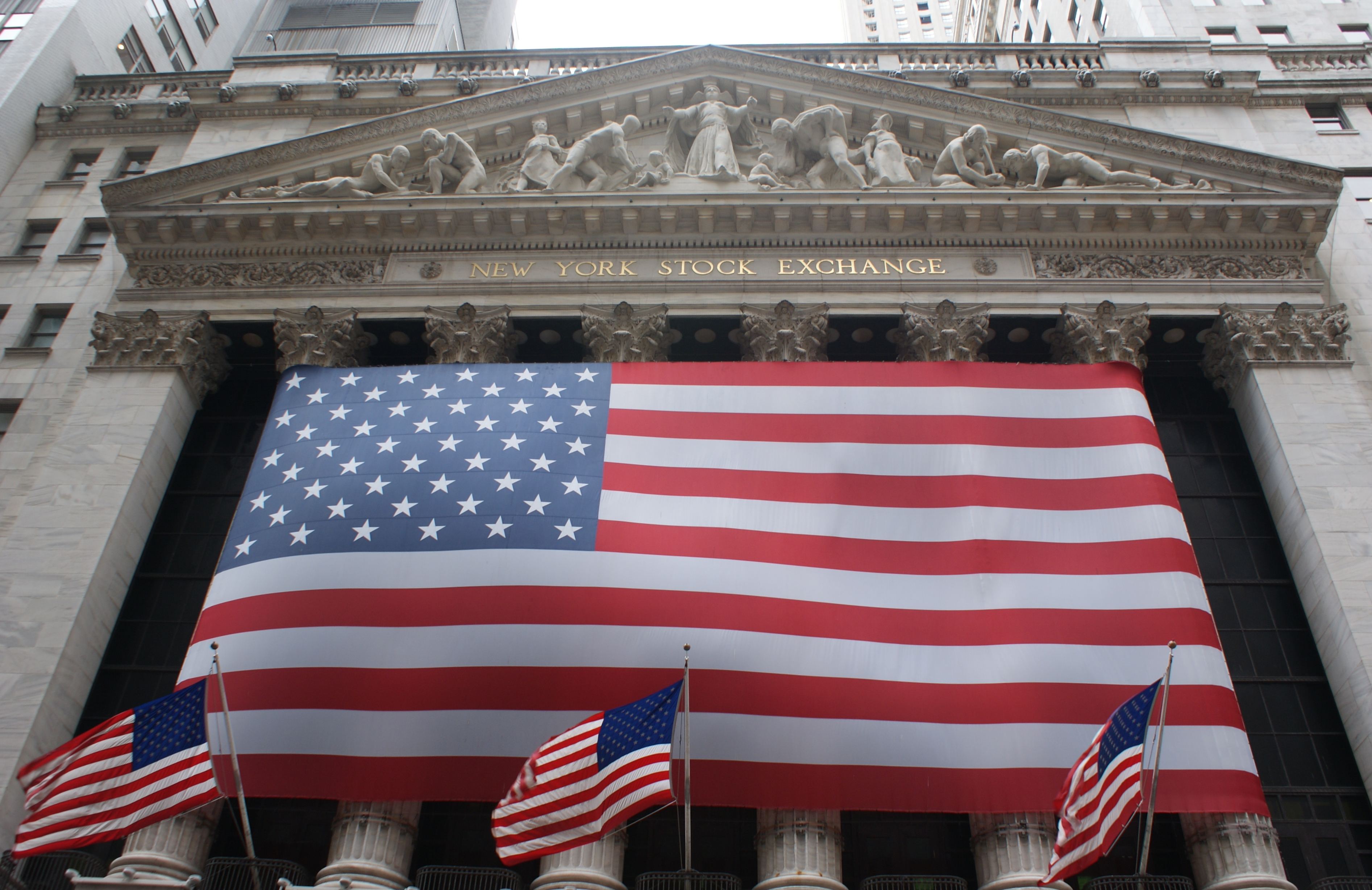 New York Stock Exchange